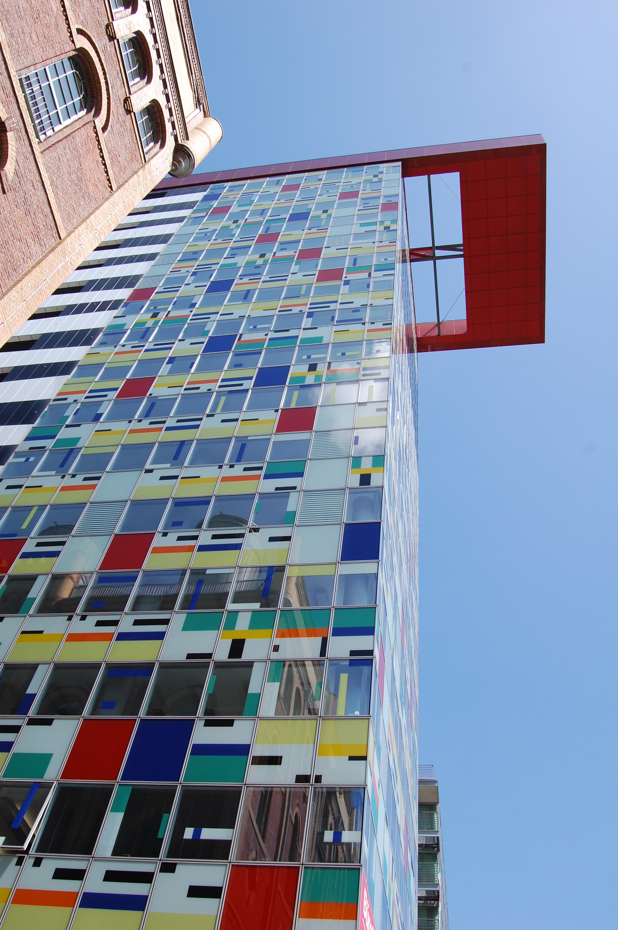 EMBA Campus Düsseldorf]